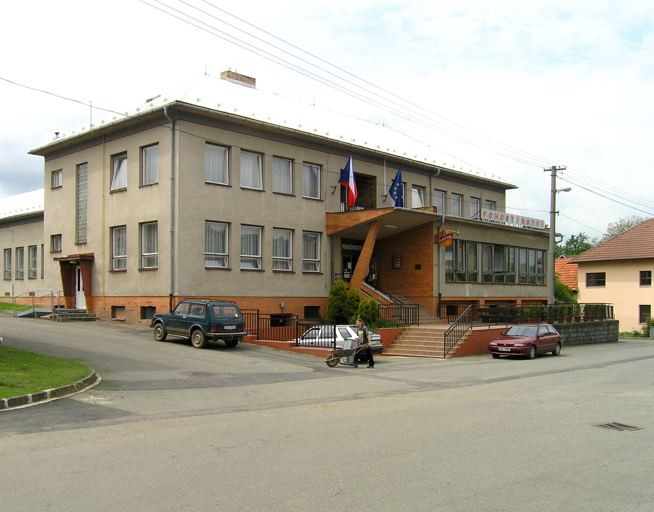 Restaurant in Bratřejov, Czech Republic